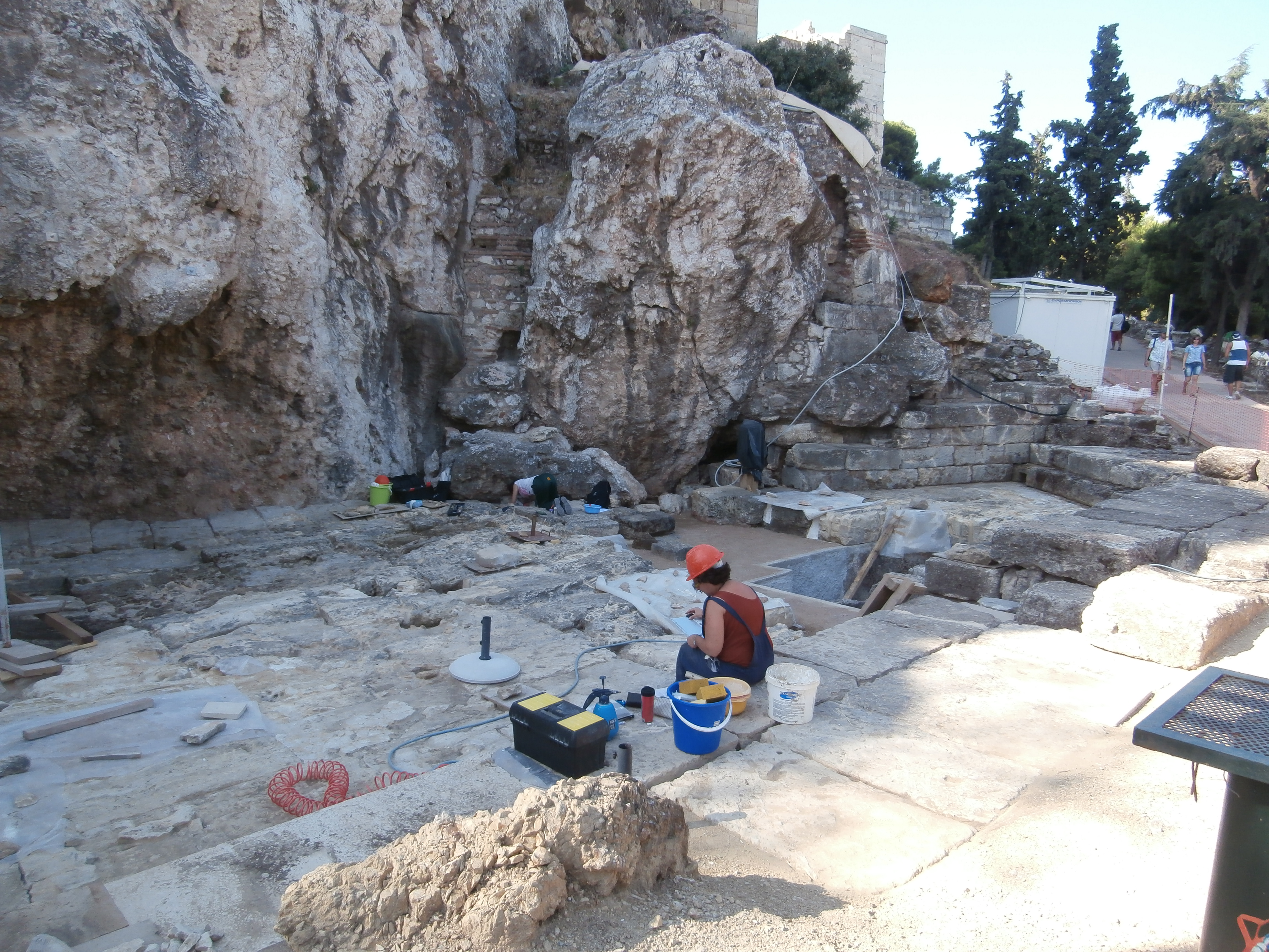 The water source of Klepsidra, under renovation in July 2014